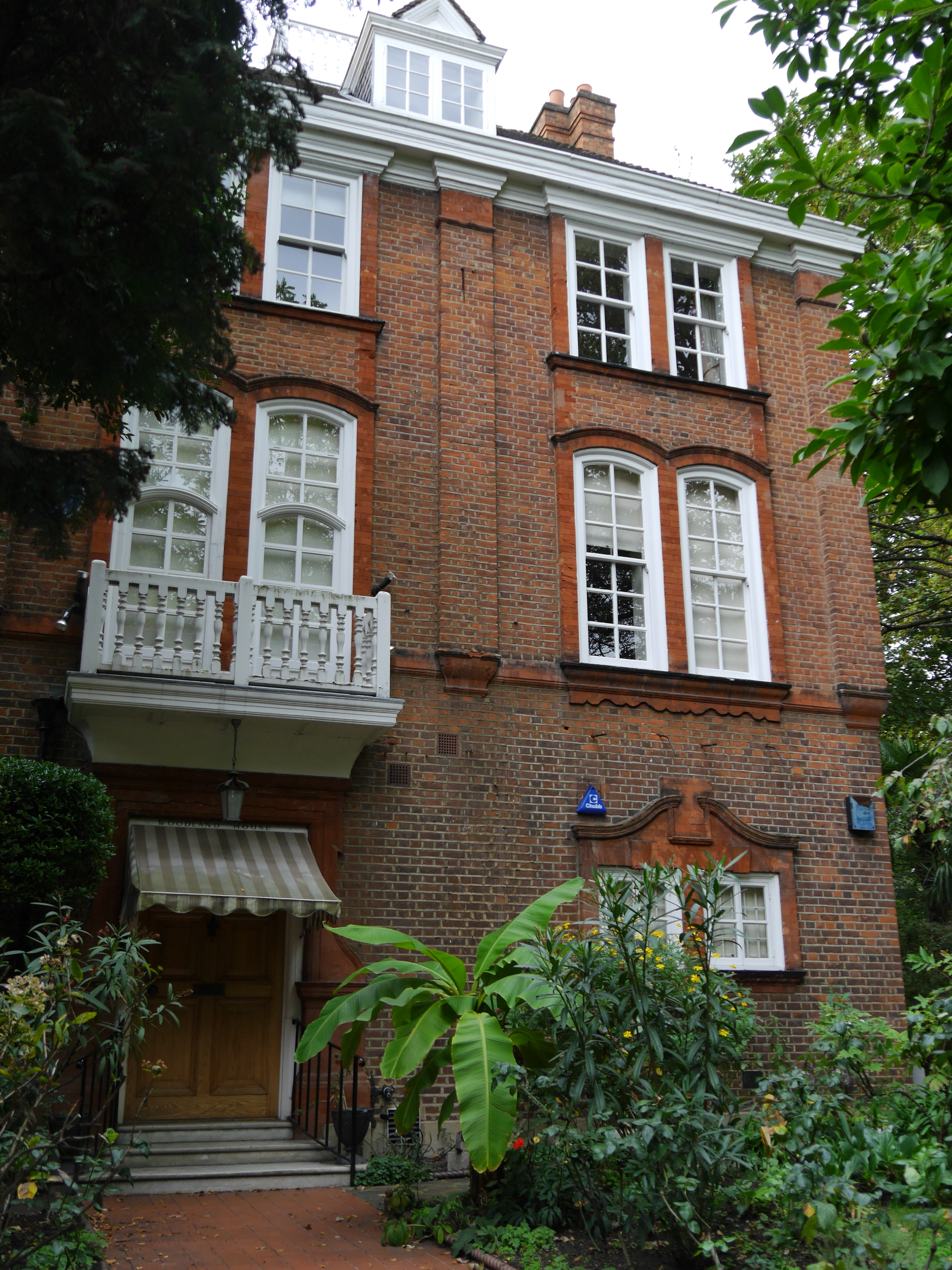 Woodland House Wikidata has entry Q17552440 with data related to this building.